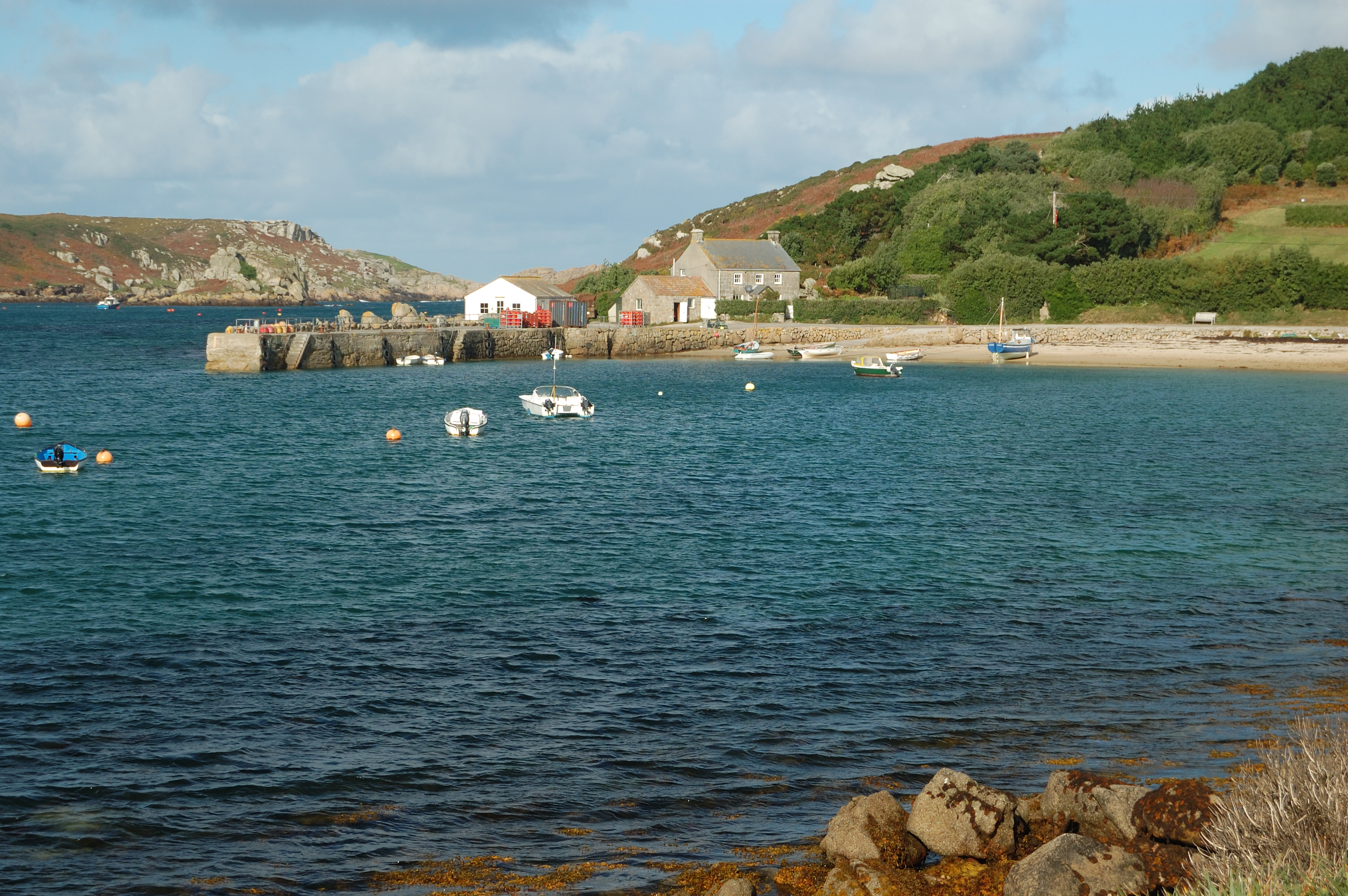 New Grimsby landing pier on the island of Tresco on a calm sunny day.